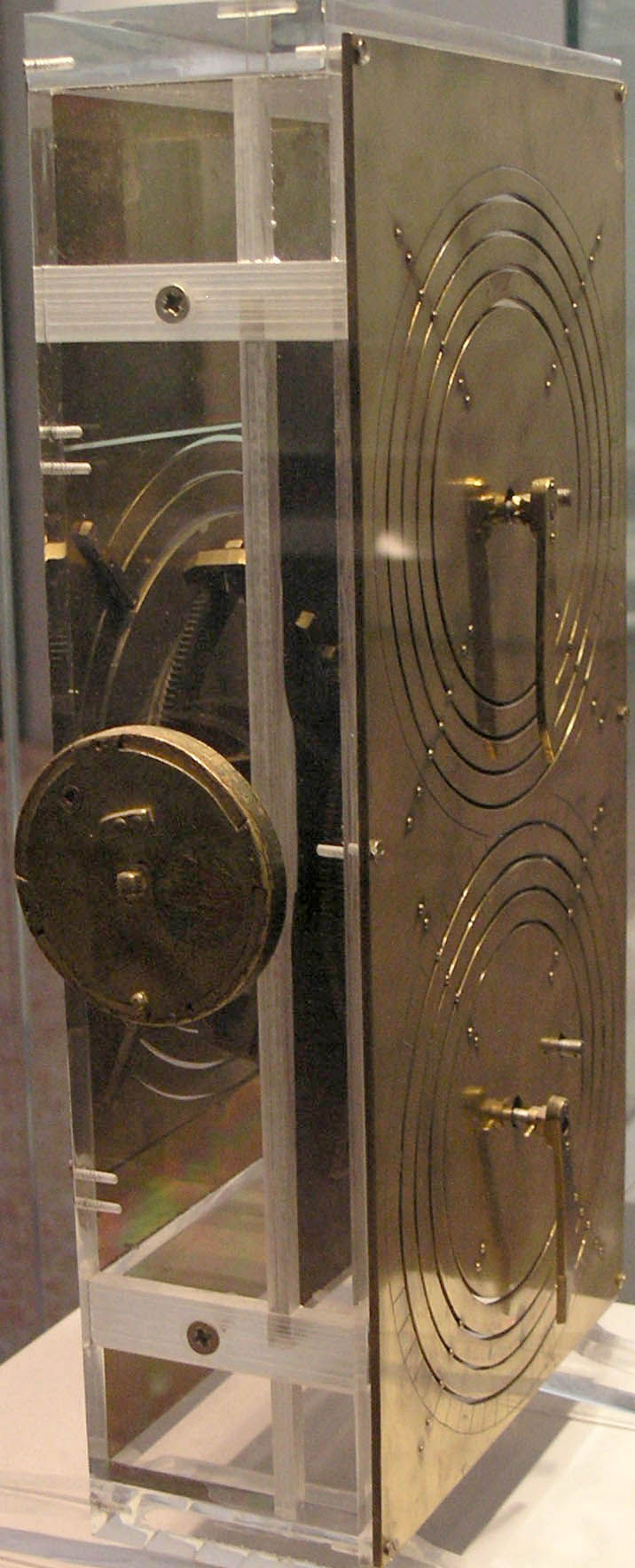 Replica of the Antikythera Instrument: Based on the research of Professor Derek de Solla Price, in collaboration with the National Scientific Research Center "Demokritos" and physicist CH Karakalos who carried out the x-ray tomography of the original. This mechanism has been rebuilt to show the likely operation of the original. Price built a rectangular box of 33 cm X 17 cm X 10 cm with protective plates bearing Greek inscriptions of planets and operational information. The mechanism is a complex set of 32 gears of various sizes, turning at different speeds. The mechanism was offered by Prof. Price to the National Museum in 1980 and remains the reference for the study of the original despite the fact that its construction has been subject to much criticism. National archaeological museum, Athens, number BE 109/1980.